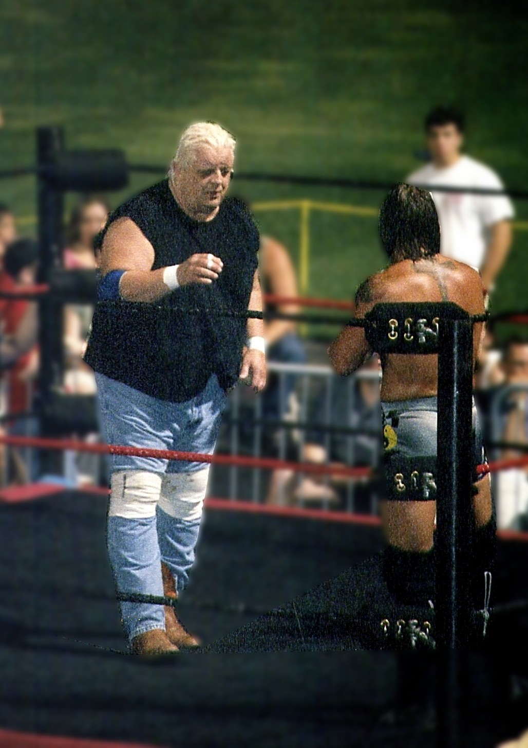 Dusty Rhodes vs. Kid Kash at the Ballpark Brawl in Buffalo, NY 7-15-05